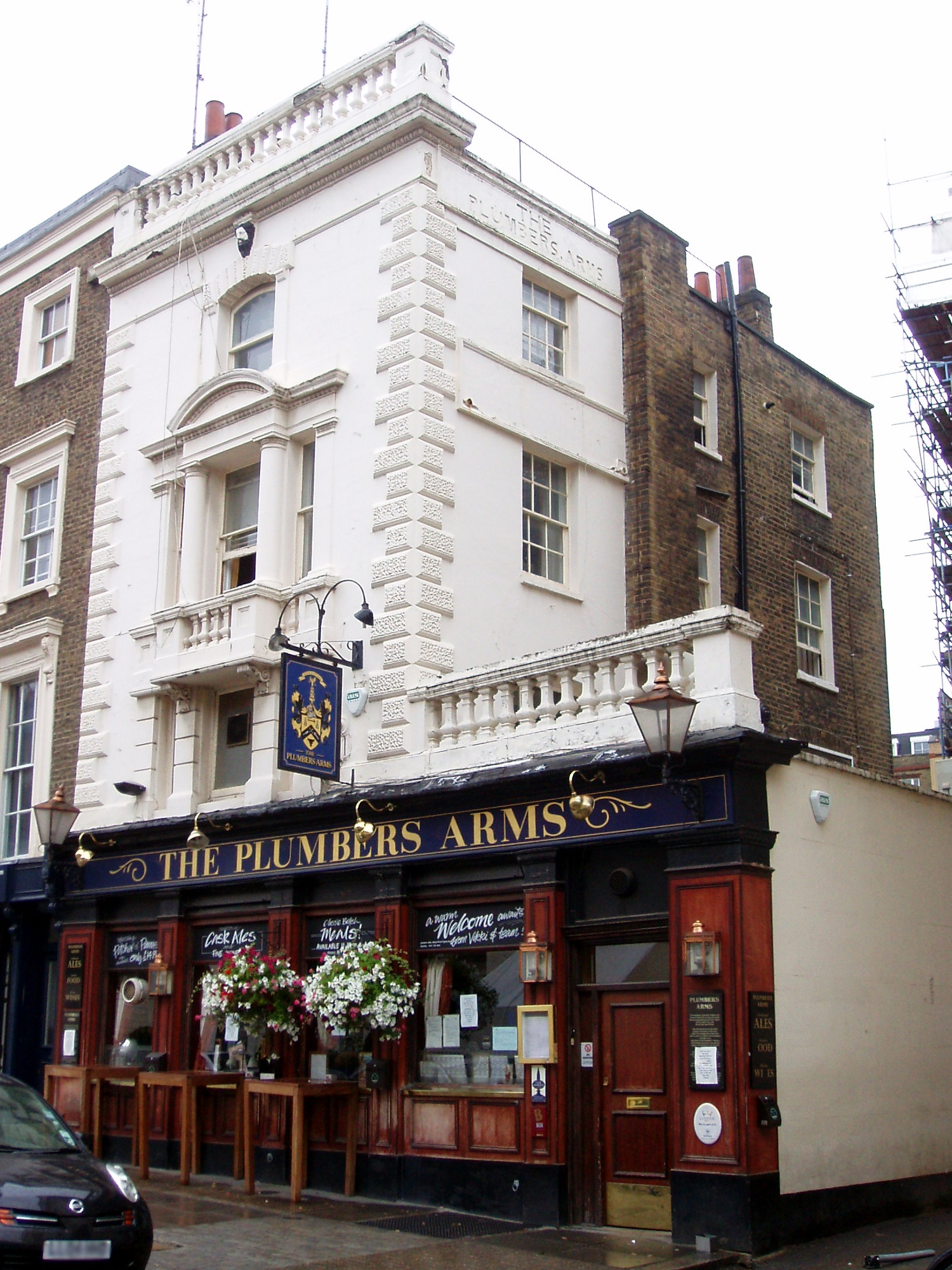 A pub not too far from Victoria station. Address: 14 Lower Belgrave Street. Owner: Spirit Pub Company [Taylor Walker] (website); Punch Taverns [Spirit Group] (former); Watney Combe Reid (former); Watney & Co (former). Links: Fancyapint Beer in the Evening Dead Pubs (history)